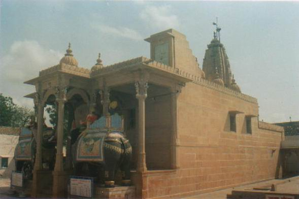 Brahma temple - Asotra